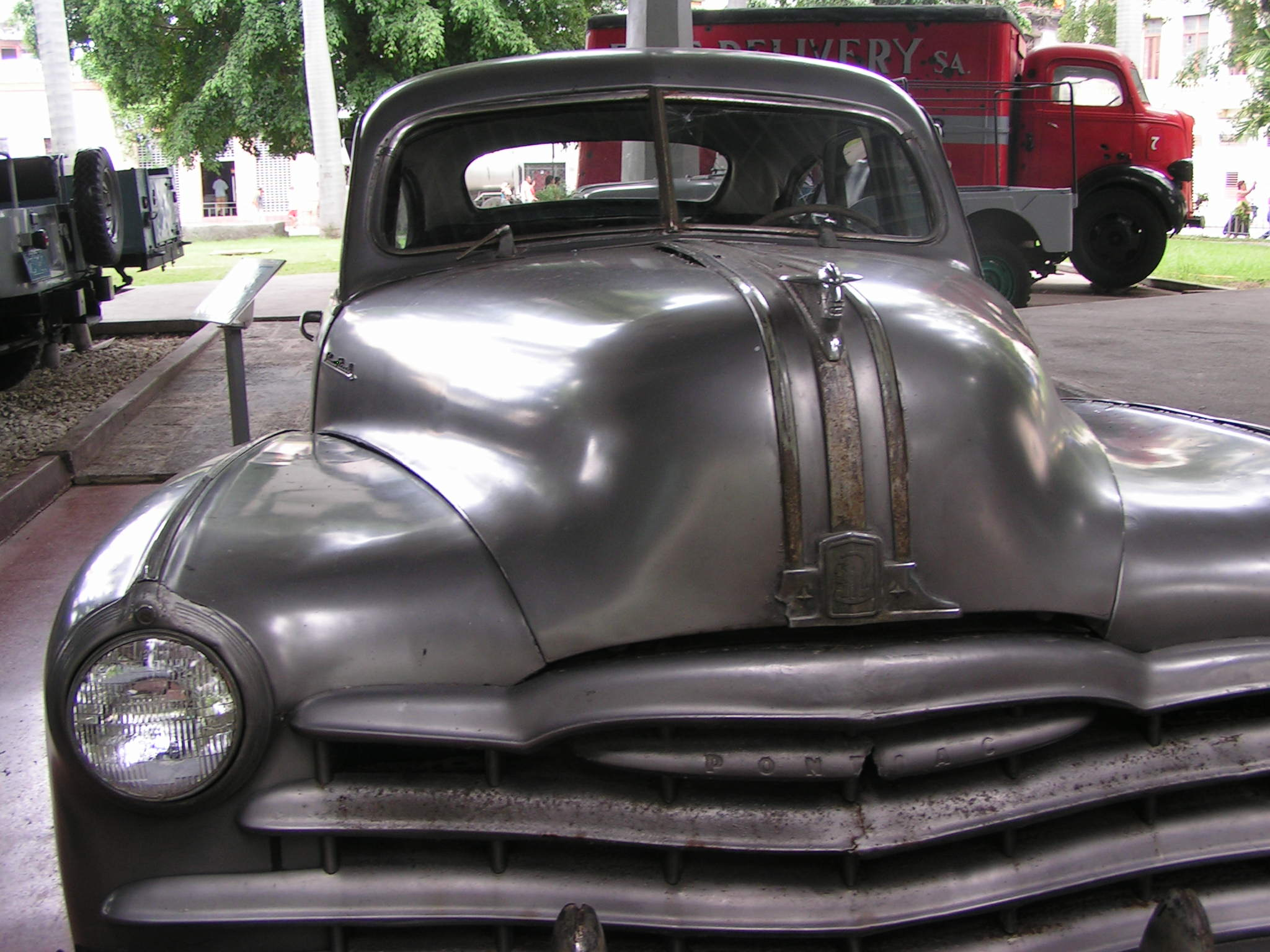 Car of Ché Guevara in the Museum of the Revolution in Havana, Cuba